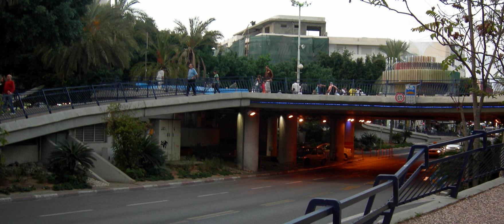 Dizengoff Square, Tel Aviv: cropped version of this)